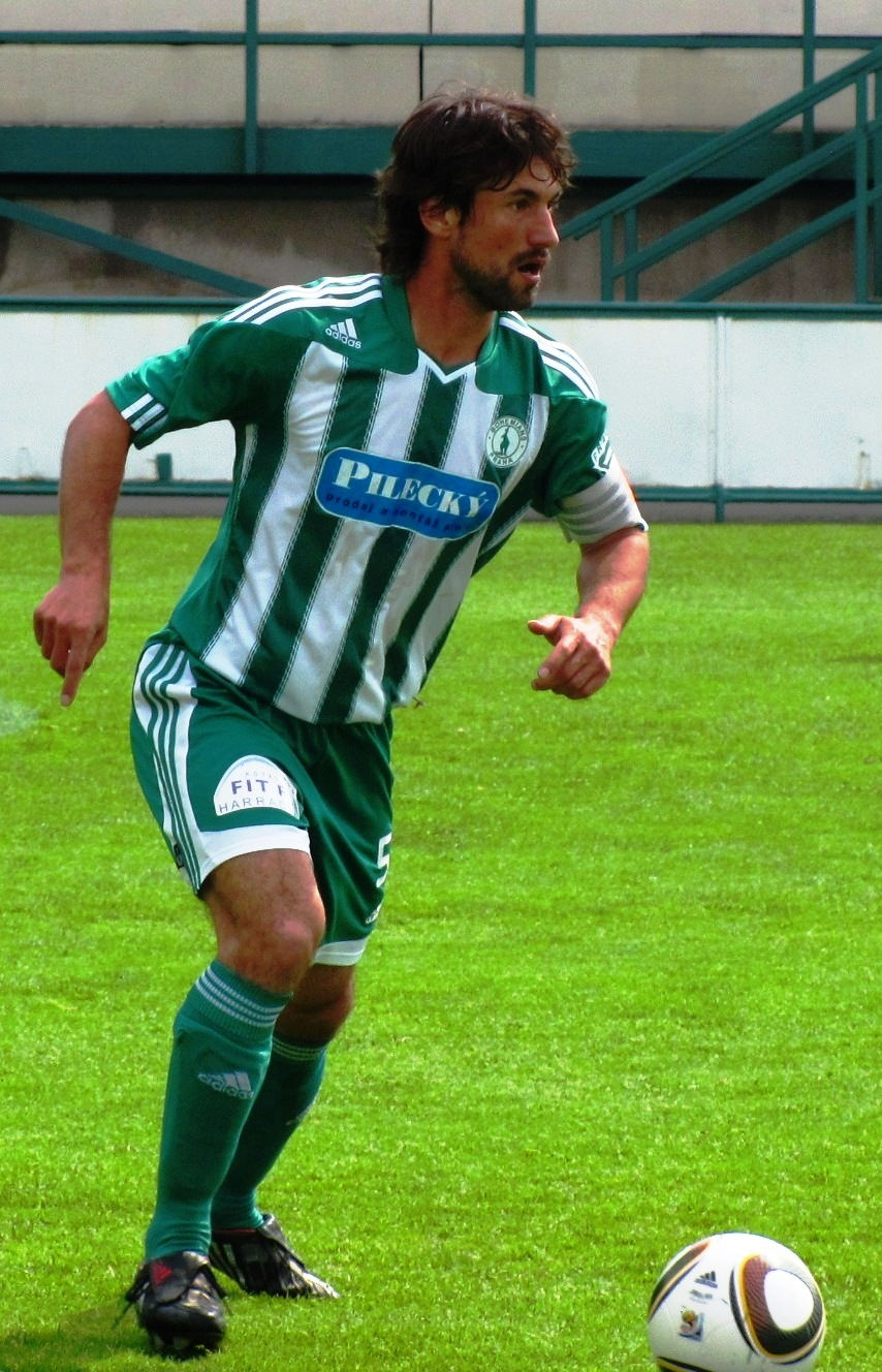 Jan Flachbart, Czech footballer